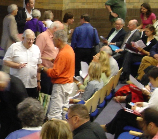 Richard Hosking the centre of discussion at the Oxford Symposium on Food and Cookery, 2005